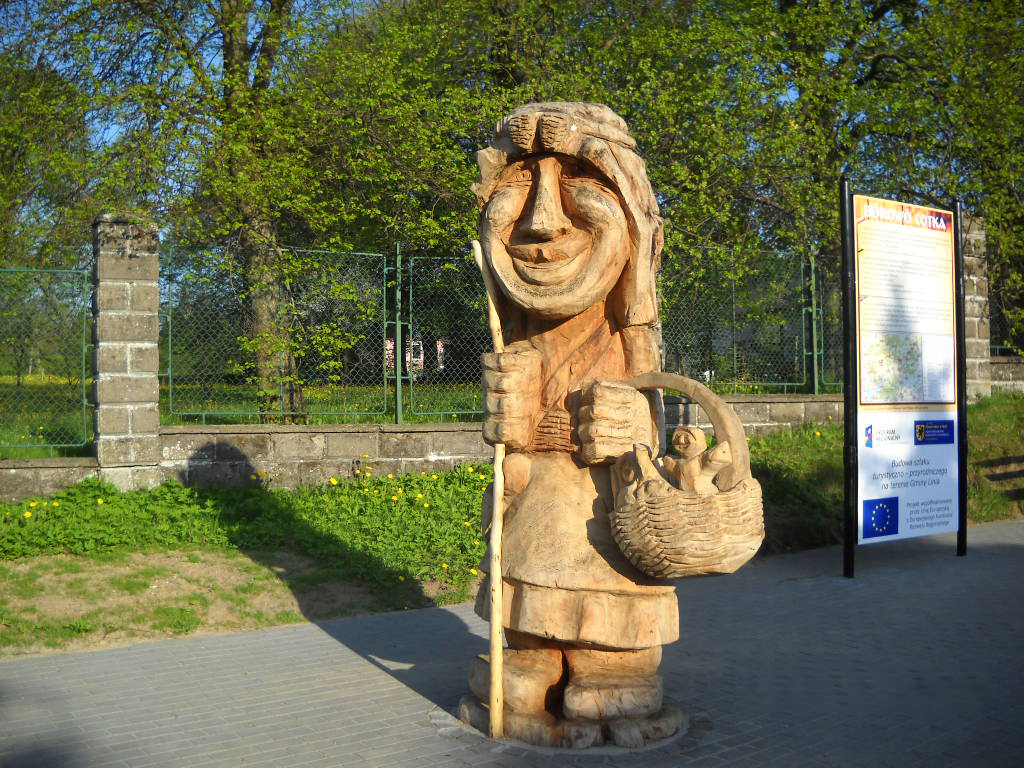 Statue of Kashubian mytical personage Bòrowô Cotka located on the „Poczuj Kaszubskiego Ducha” tourist route (Smażyno, Poland).